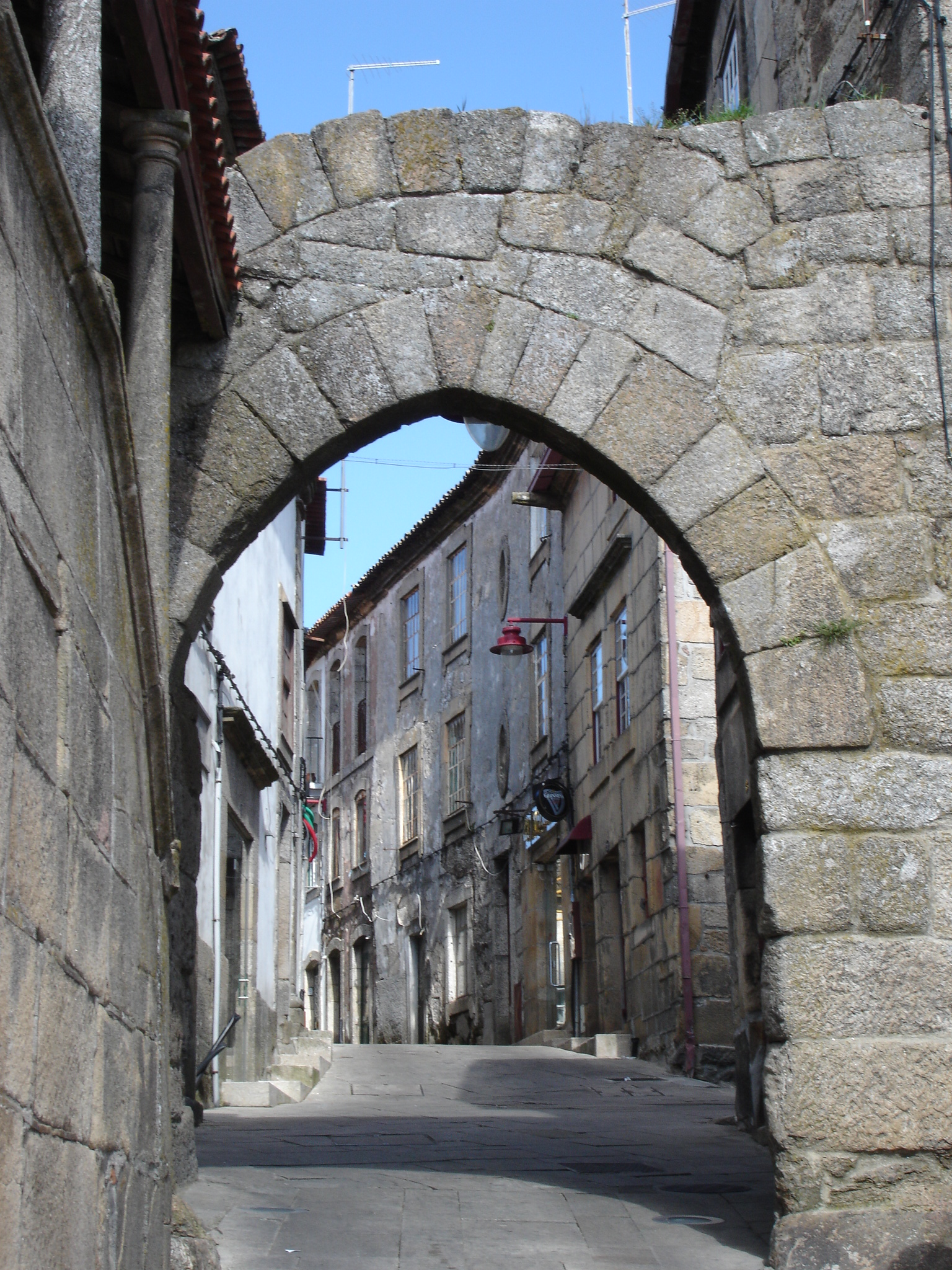 City Gate of Guarda. Photo by Cláudio Franco /